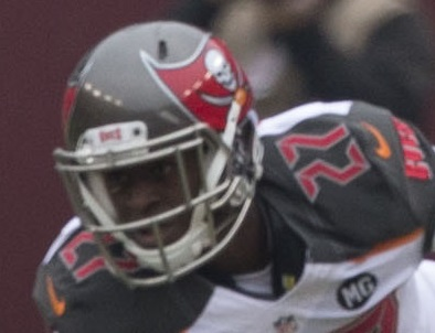 Buccaneers at Redskins 11/16/14